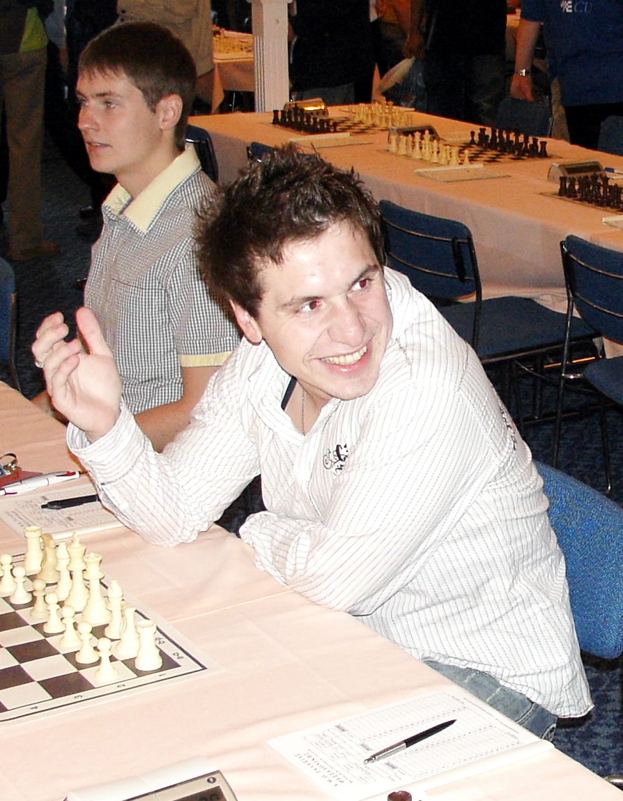 GM Borki Predojević, 24th European Club Cup 2008 Halkidiki, Greece